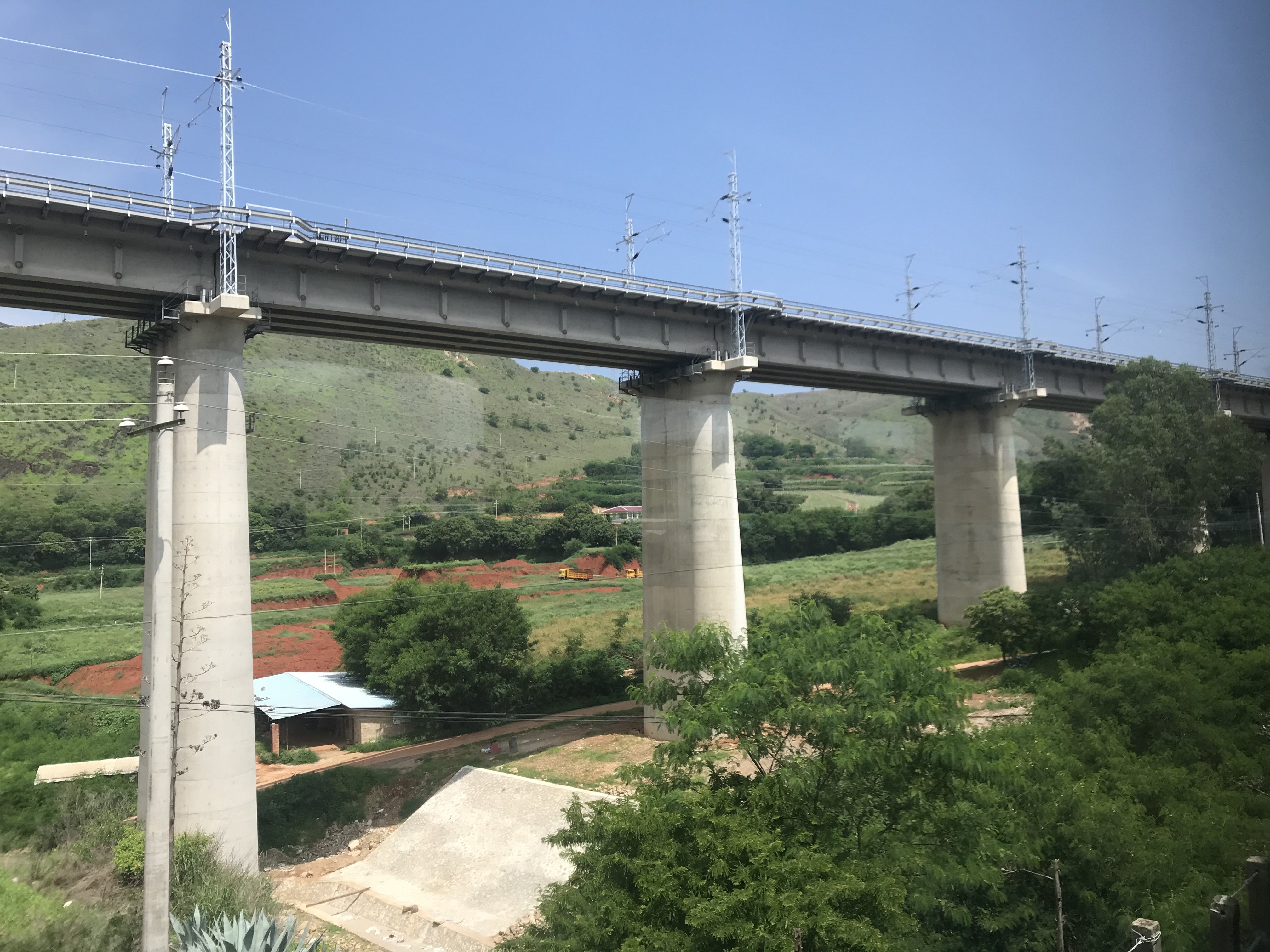 201908 Yongren-Guangtong Railway in Yuanmou